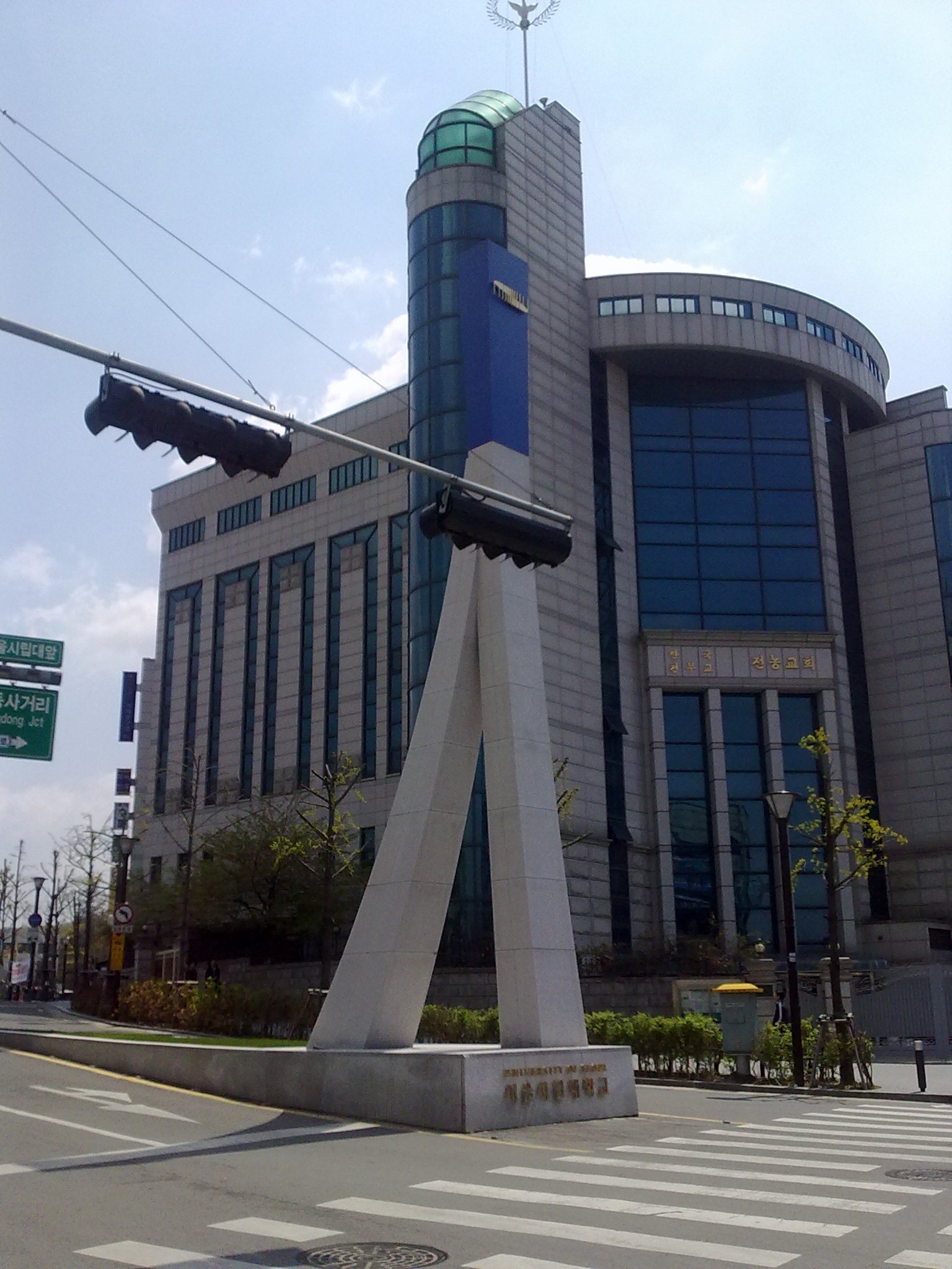 The sign to the University of Seoul.